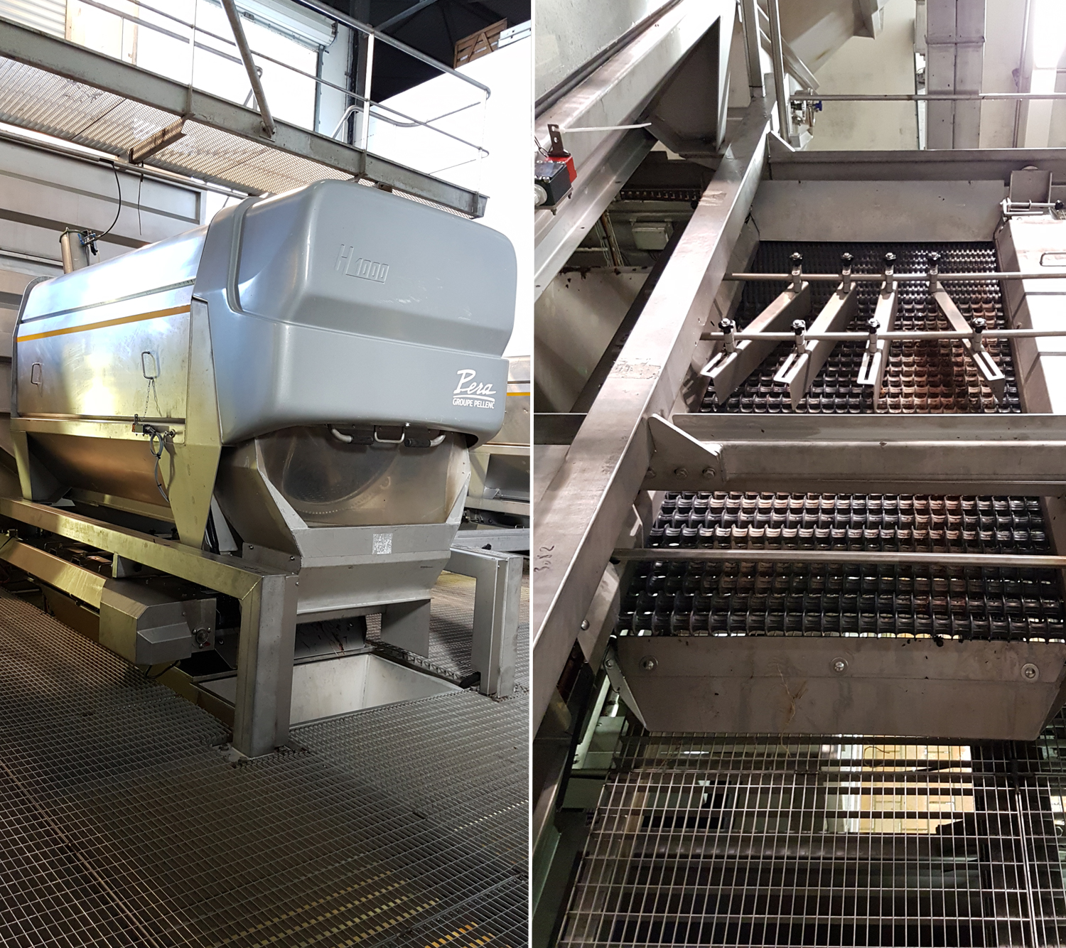 Table de tri à rouleaux haut débit Kliner